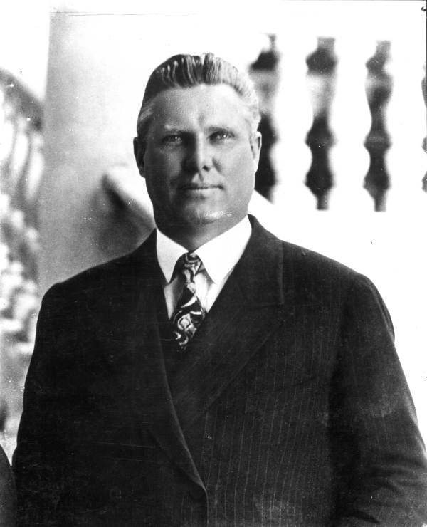 George Edgar Merrick (1886-1942) developer of Coral Gables. photo from Florida Photographic Collection